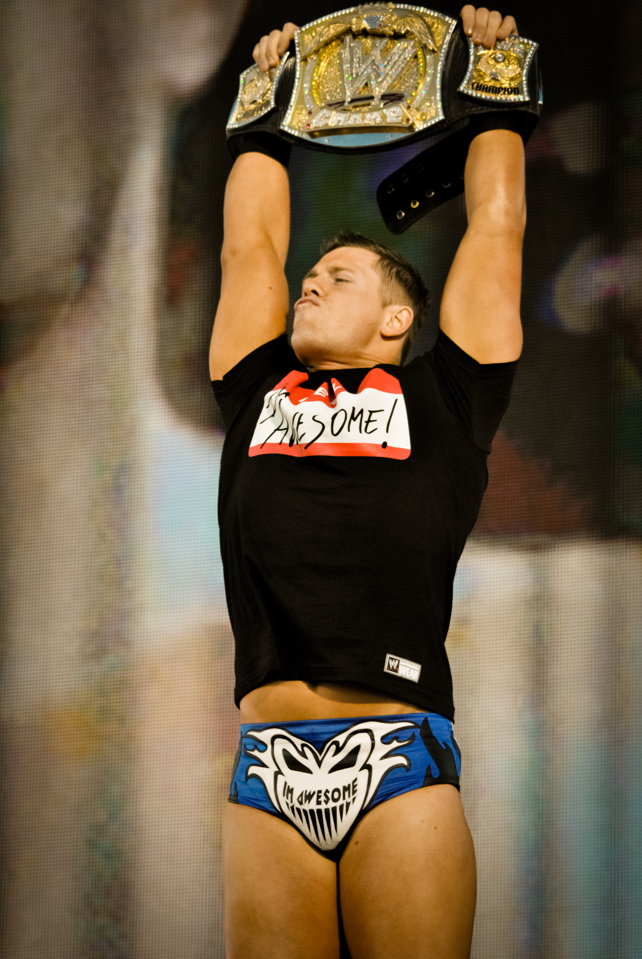 The Miz as the WWE Champion in Fort Hood, Texas on December 11, 2010 for WWE's annual Tribute to the Troops show.